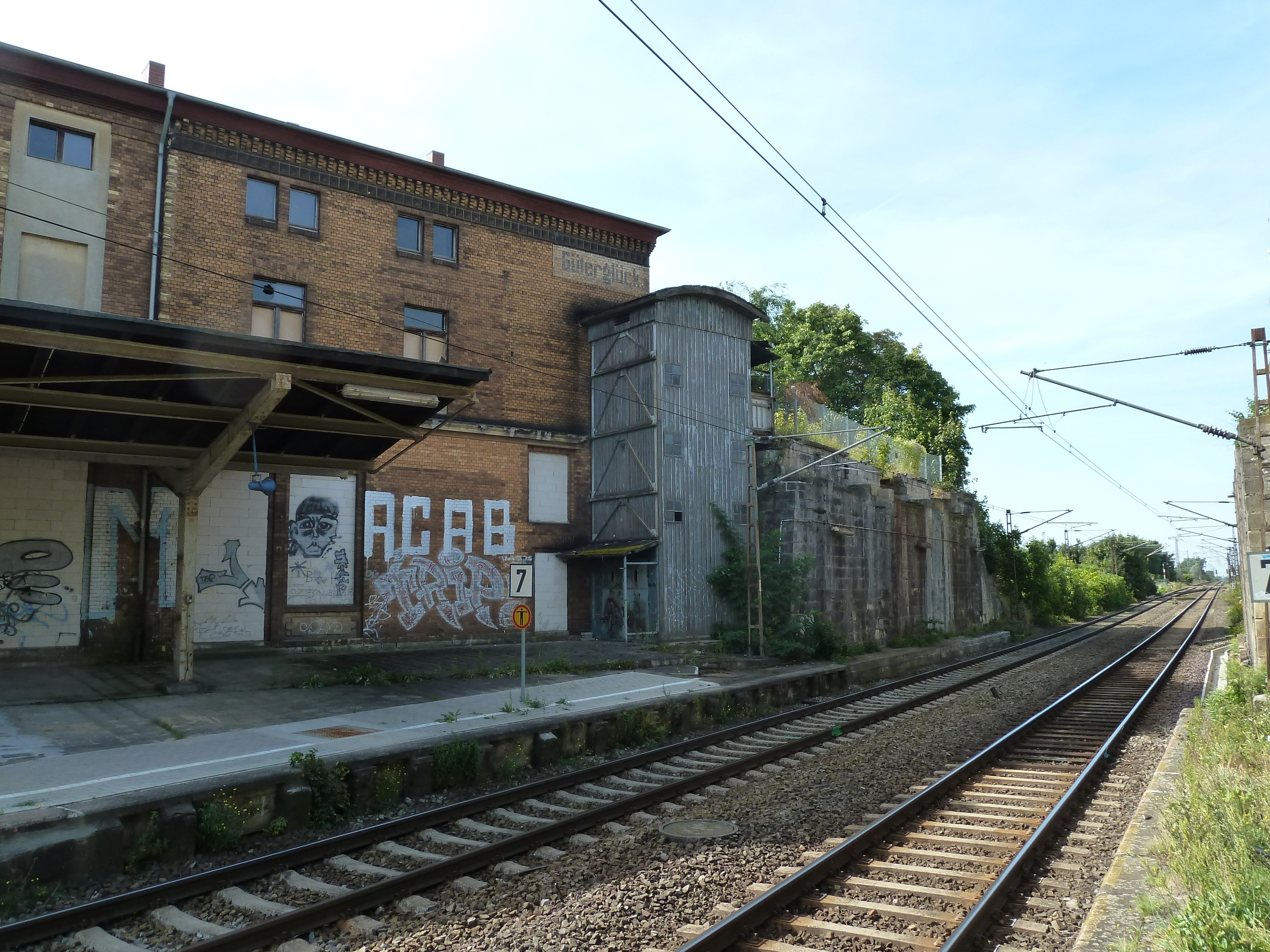 Güterglück train station, unused station building and lower platform